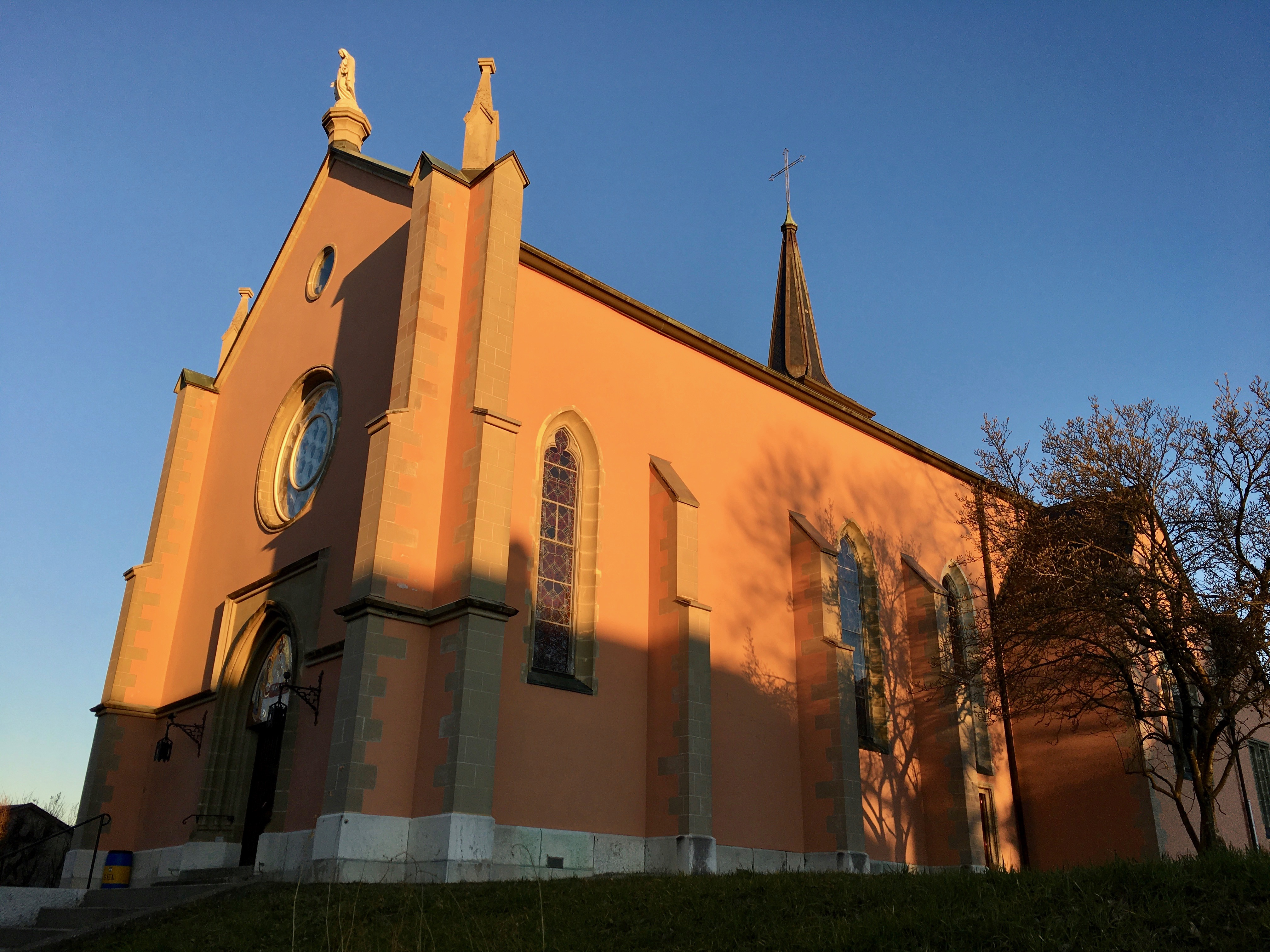 This is the Catholic church found in Bernex